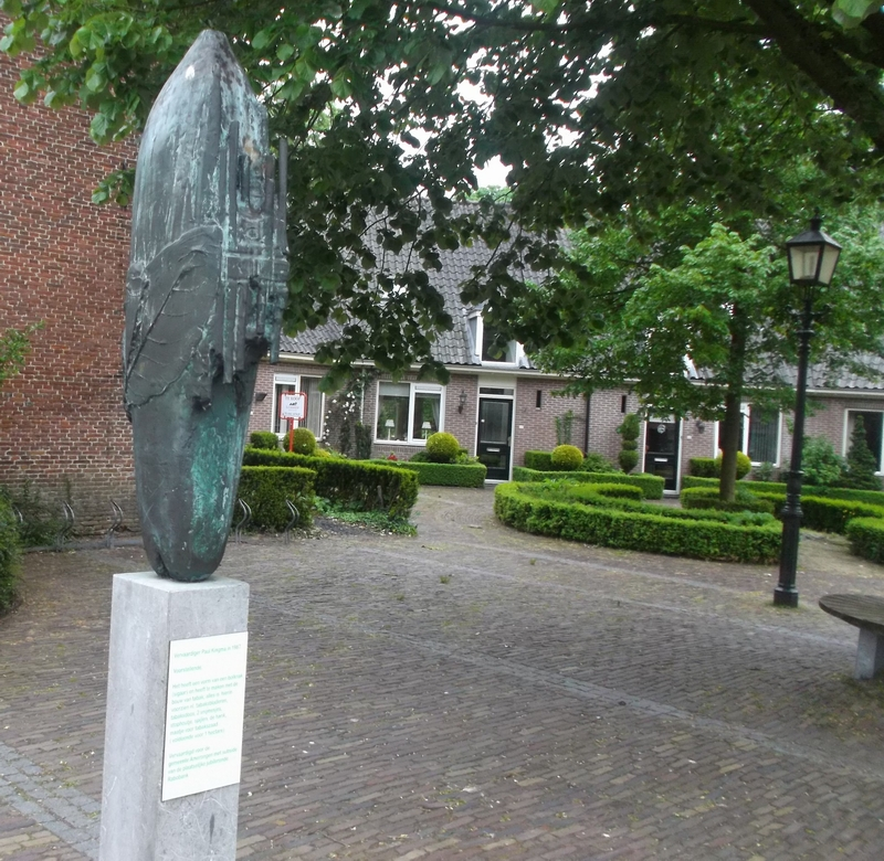 Statue in Amerongen, the Netherlands. Tabacco museum.